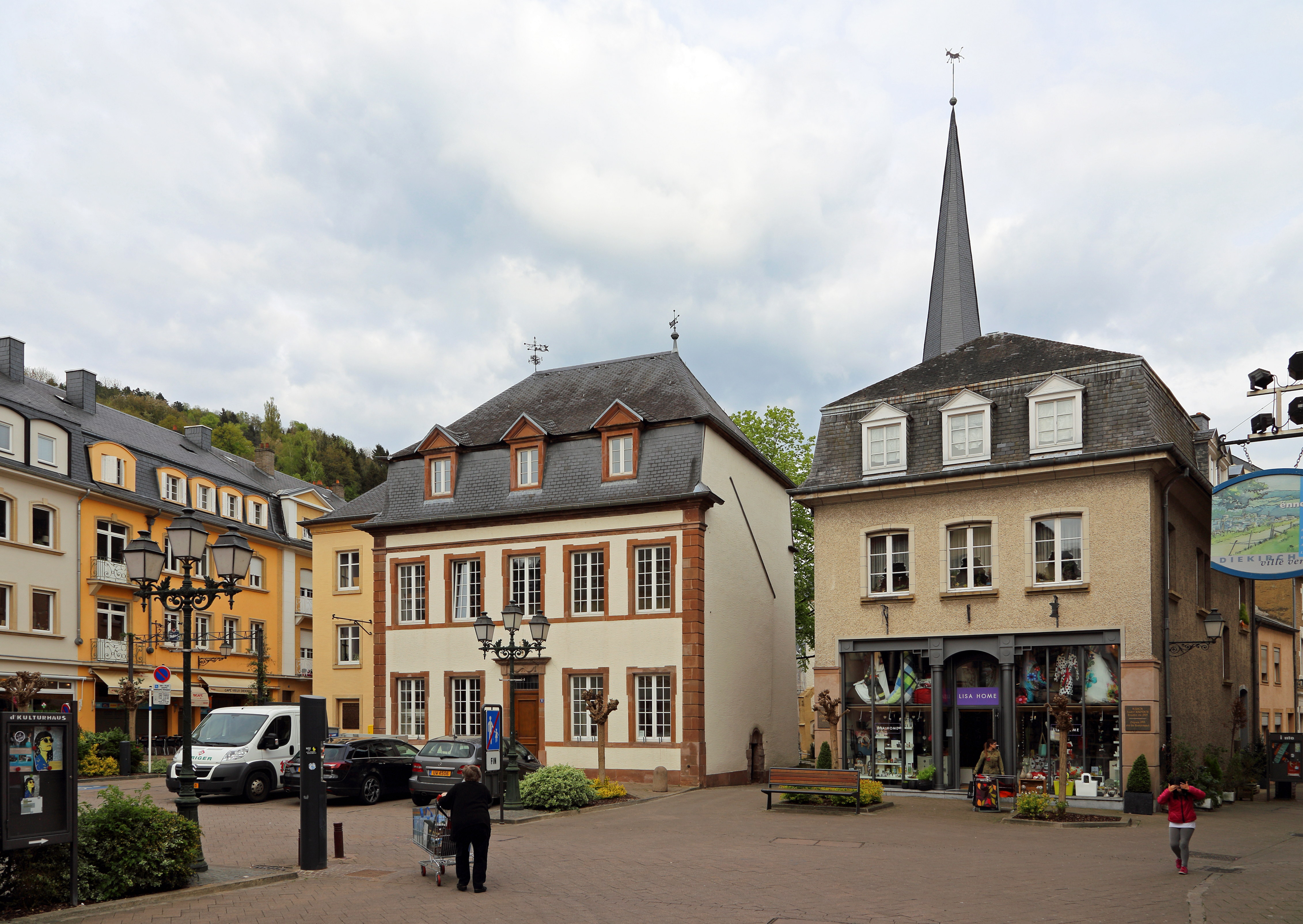 Diekirch (Grand Duchy of Luxembourg): Joseph Bech square